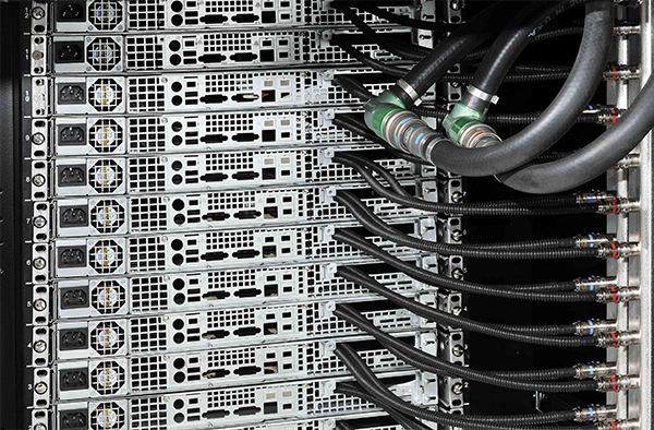 CoolIT Rack DCLC AHx Liquid Cooling Solution, Staubli connectors, stäubli solutions, couplings